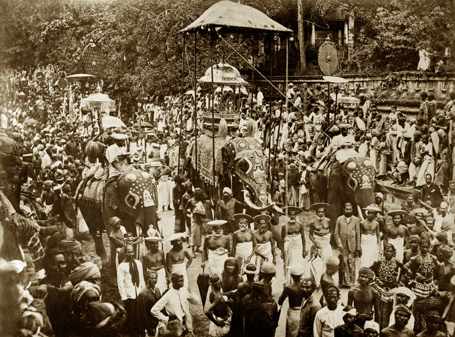 A photograph of the Esala Perehera festival in Kandy, taken around 1885.